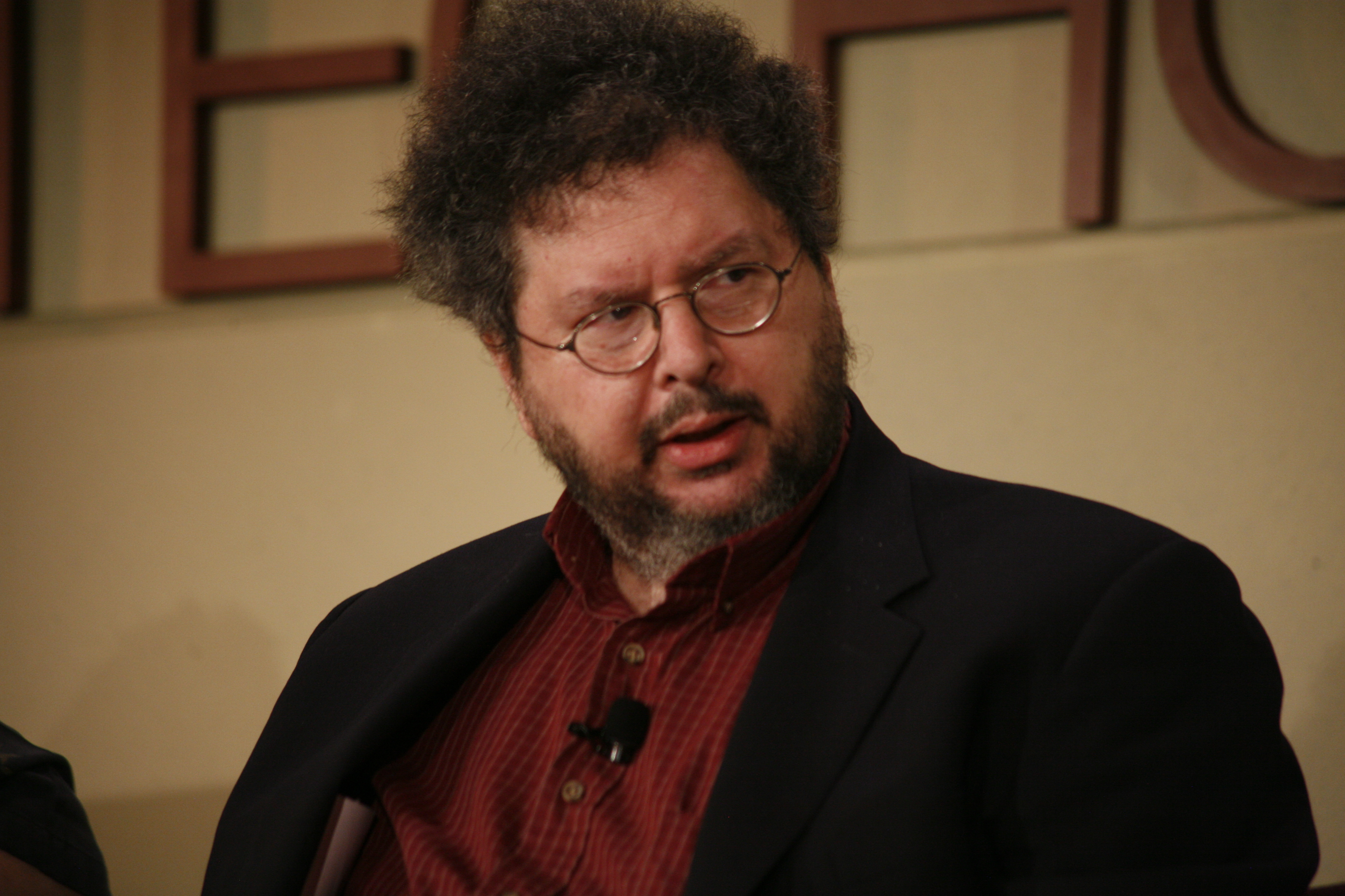 A conversation with David Gelernter, Yale University — Interview by: Brent Schlender and Peter Petre